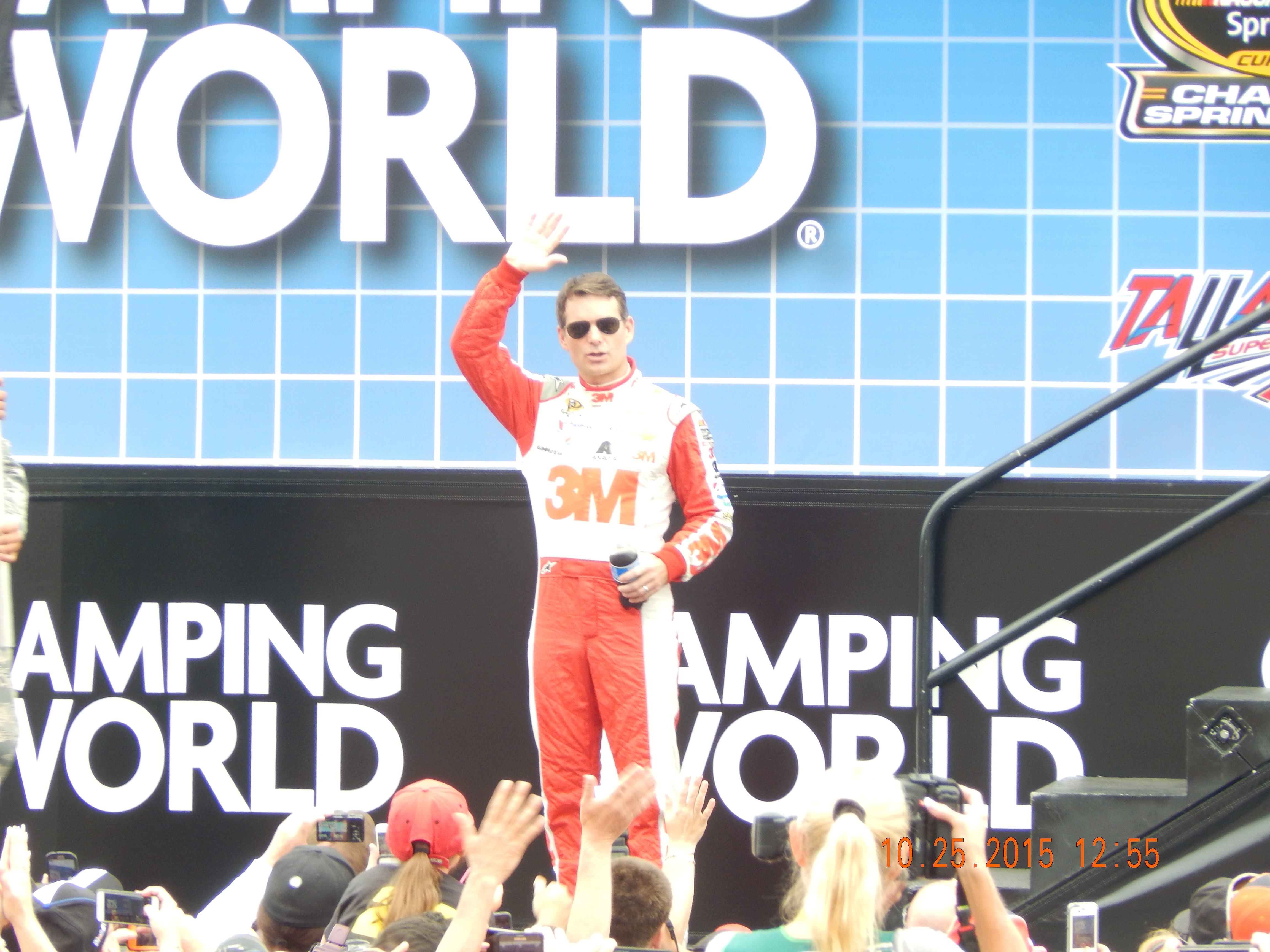 Jeff Gordon being introduced to the crowd at Talladega Superspeedway.